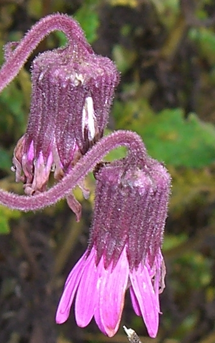 Description: Detail of Senecio garcibarrigae